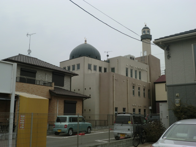 Fukuoka masjid(mosque) in front of Hakozaki station,Fukuoka city.